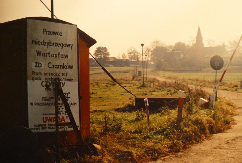 Ferry in Warta in Wartoslaw. Greater Poland.